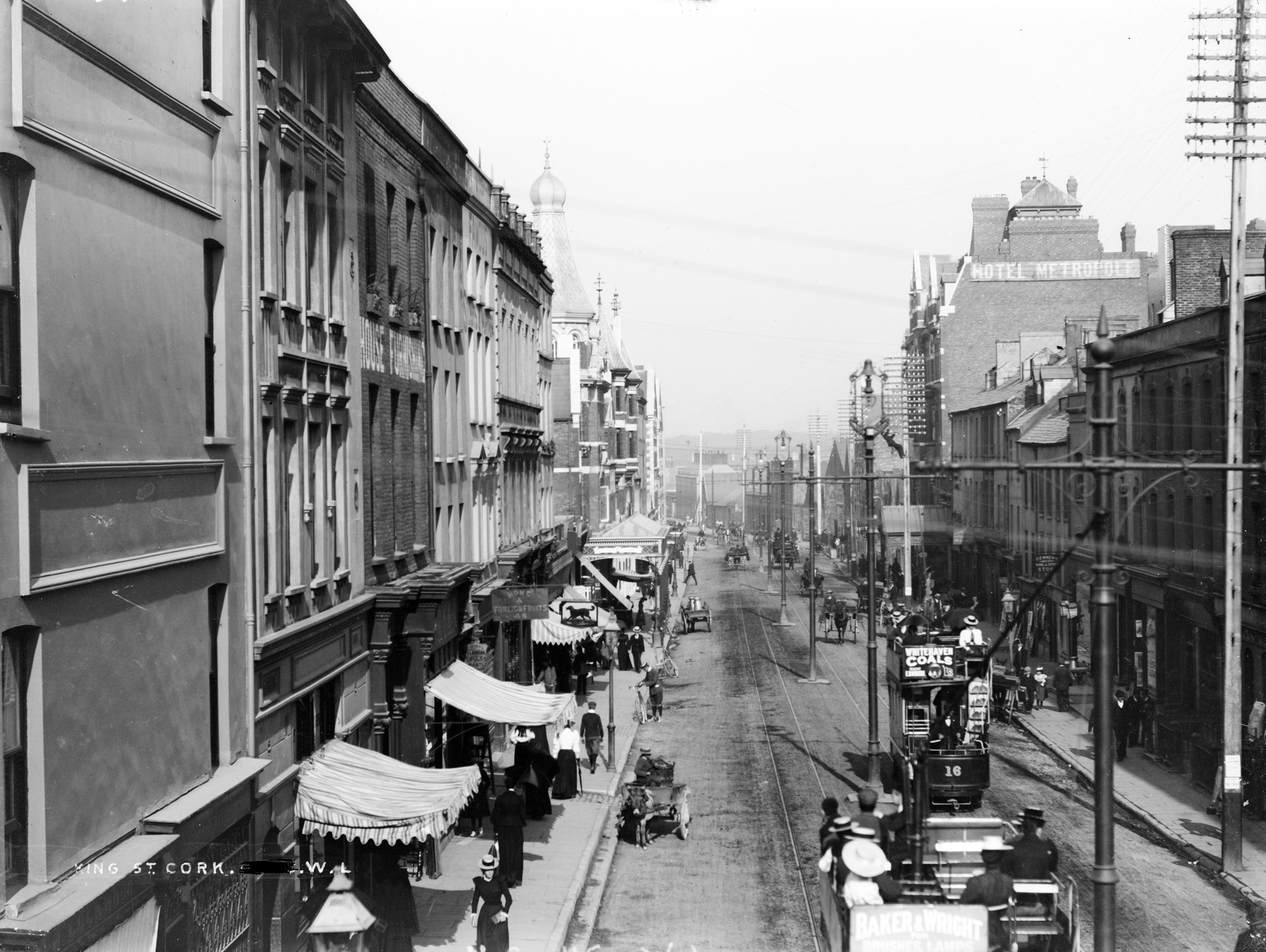 A lovely high view of King Street (now MacCurtain Street) in Cork. Where was the high point from which this photo was taken? I hope that the unusually situated dog in this photo will satisfy those of you who requested a canine component in our Flickr offering - this means you, DannyM8! Date: Circa 1900? NLI Ref.: L_NS_00115